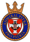 coat of arms of ENS Admiral Pitka